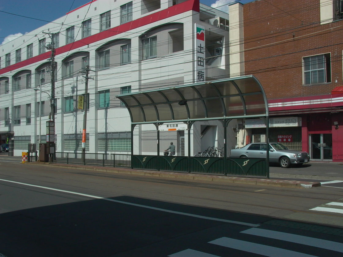 Higashi Tonden Dori station Sapporo, Hokkaido, Japan